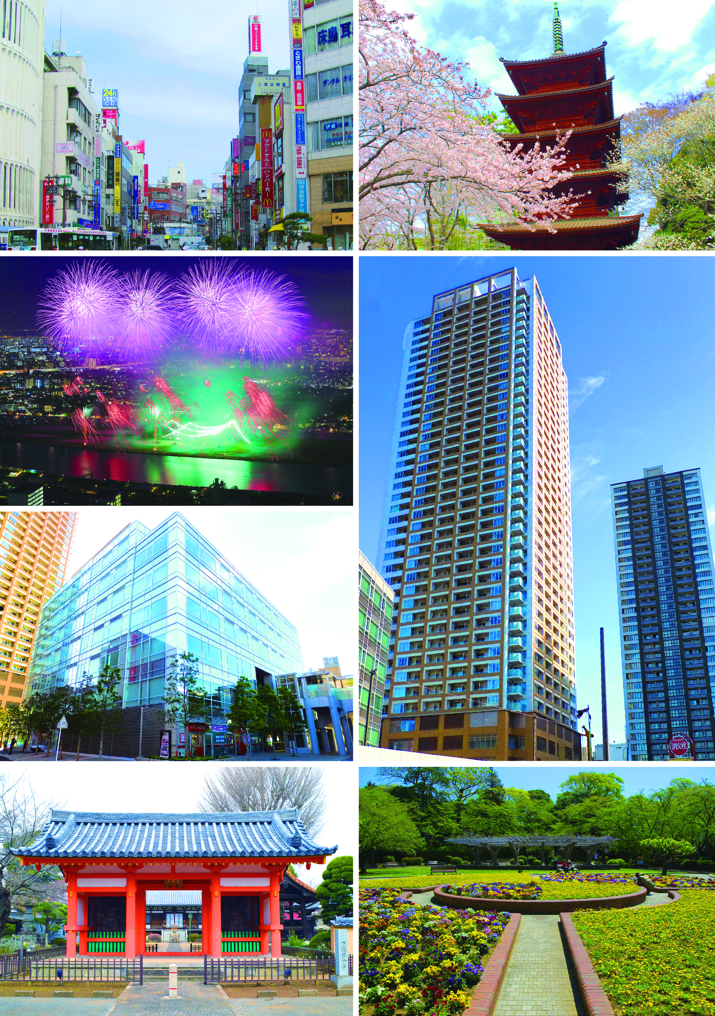 Ichikawa montage.jpg